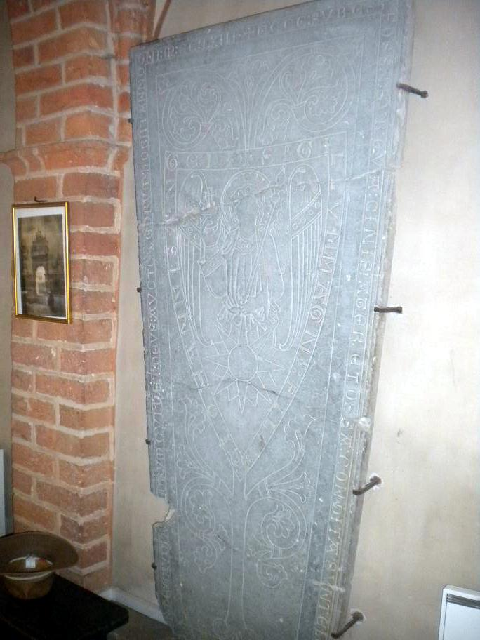 Gravestone in Skokloster Church (now wall-mounted) for a Lady Helen who died in 1263, daughter of a Magnus Johansson Ängel, as released by image creator RistessonPlace: Sko, Bålsta, Sweden